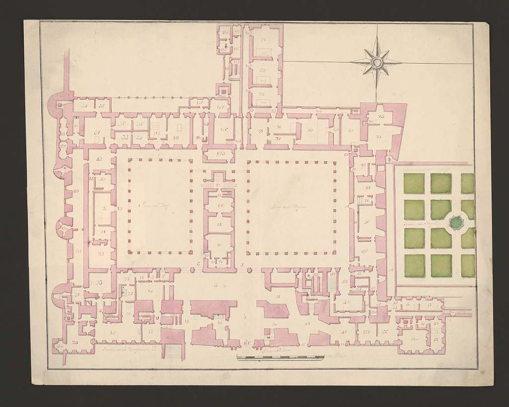 Title: Alcázar of Madrid. Ground floor plan Abstract/medium: 1 drawing : watercolor and ink ; sheet 47 x 59 cm.